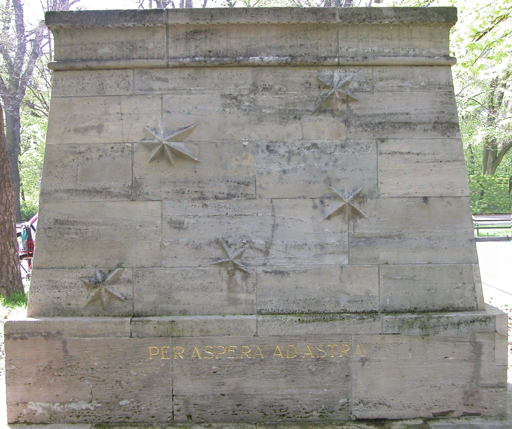 Brunswick, Germany: Colonial monument (rear)